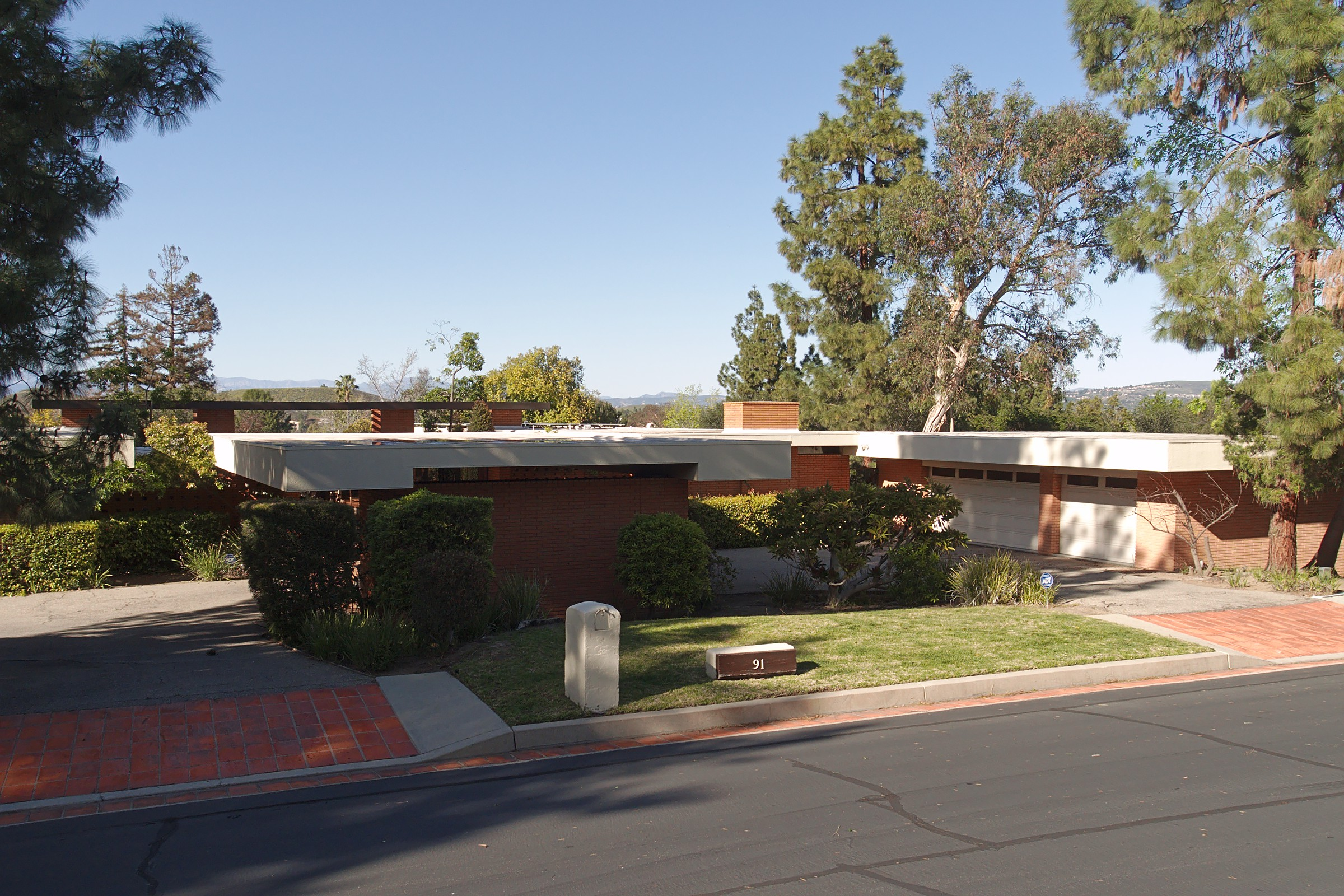 Case Study House No. 28, view from street — located in Thousand Oaks, California. The 1966 Modernist house was part of the Case Study Houses program. On the National Register of Historic Places in Ventura County, California.